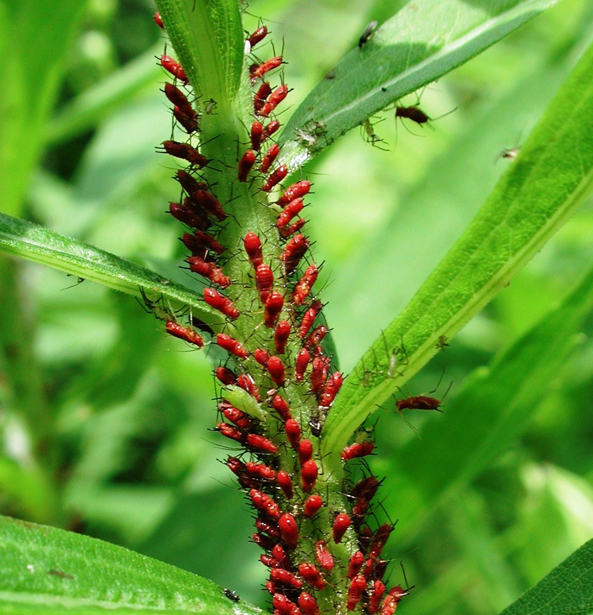 Aphids (Genus Uroleucon) on unknown species of Goldenrod (Solidago sp., Asteraceae). There are two species here, the red one (likely Uroleucon nigrotuberculatum) and a green one (likely Uroleucon caligatum or other member of Uroleucon subgenus Lambersius)